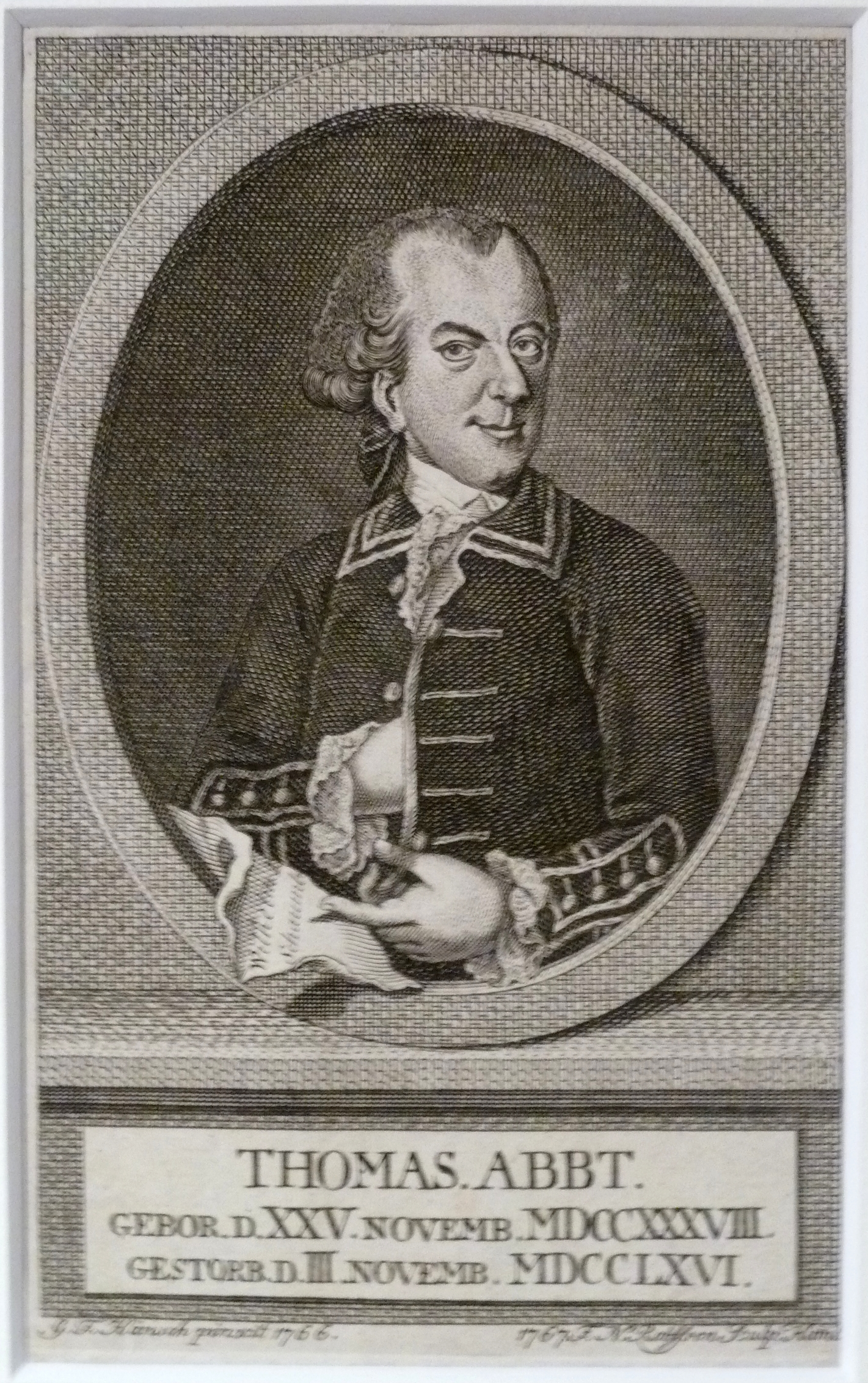 University Professor of Mathematics and Philosophy